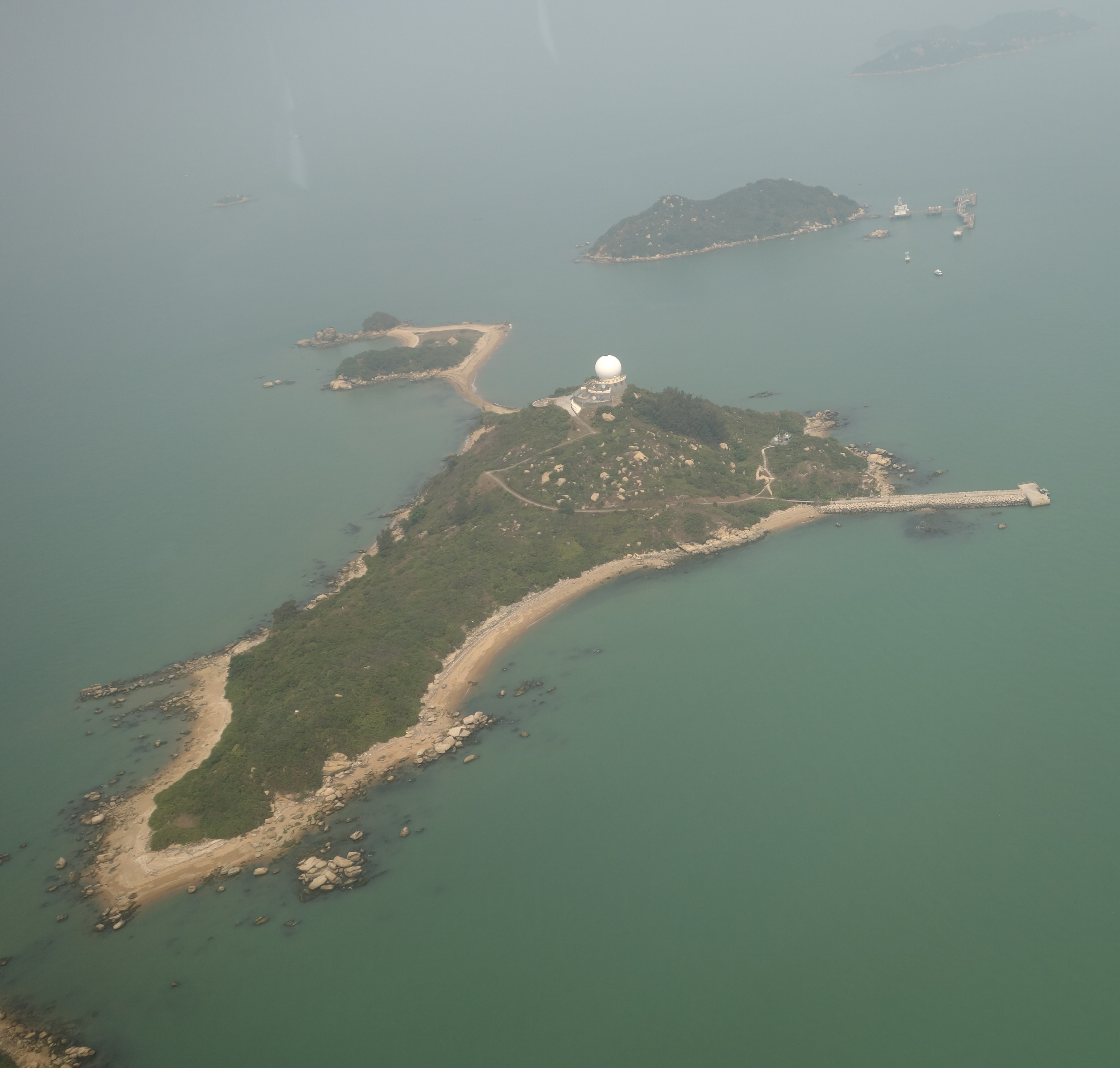 Aerial Overview of Sha Chau as seen from Southwest, Pak Chau is faintly visible to the Northwest, Lung Kwu Chau to the Northeast in the background.